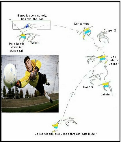 Illustration- Banks vs Pele, Mexico 1970- the penetration and flank pass. Diagram of the play is my original drawing. Inset photo from Wikicommon image Soccer goalkeeper.jpg found on the "Football (soccer) positions" article.